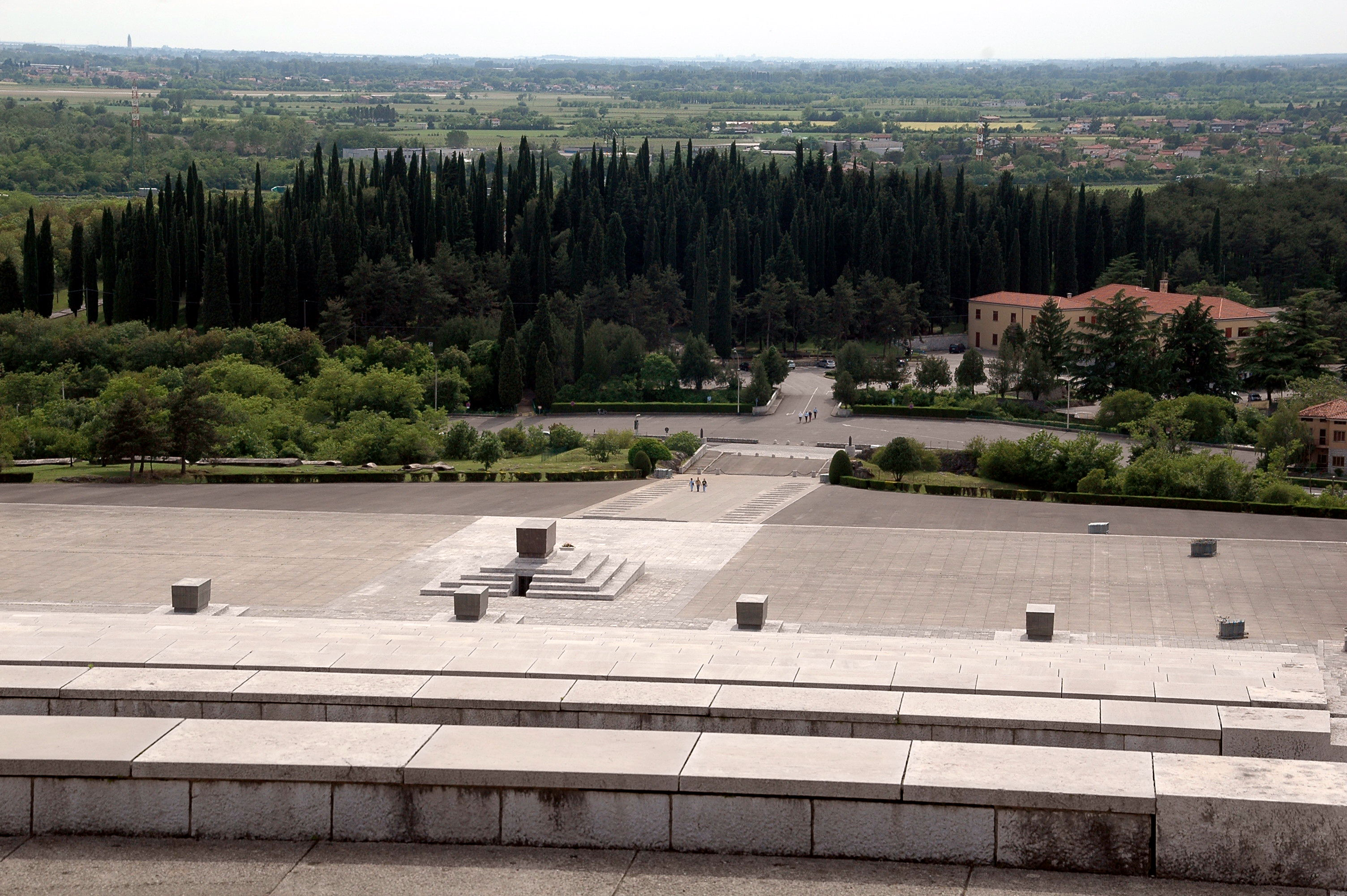 Monument of Redipuglia, Fogliano-Redipuglia, Friuli, Italy